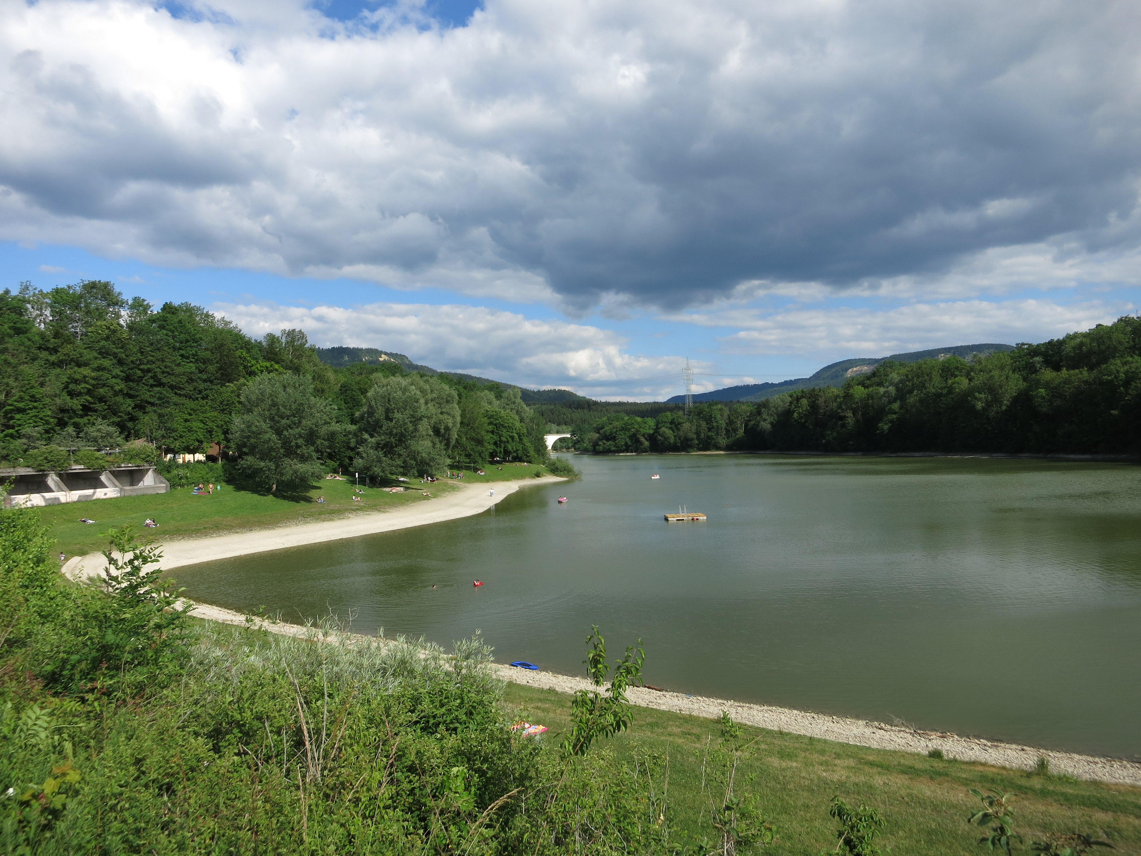 Artificial lake at Schoemberg